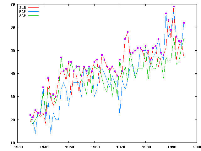 Portuguese soccer championship, points from 1934 to 1995.